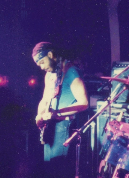 Darryl Thompson touring with Peter Tosh, Cardiff 1979